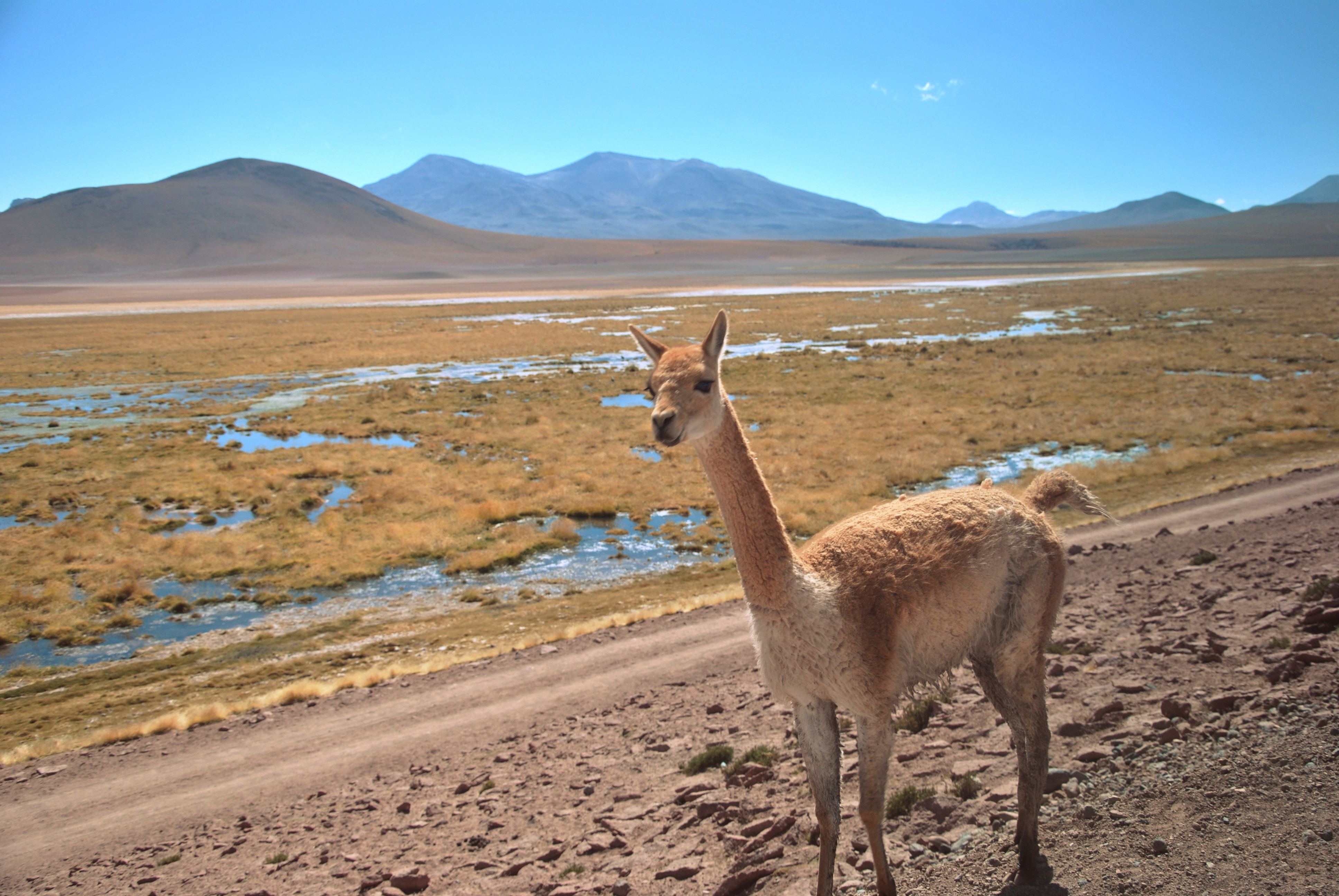 A vicuña at the Bofedal de Putana, in the background Tocopuri volcano. San Pedro de Atacama, Chile.